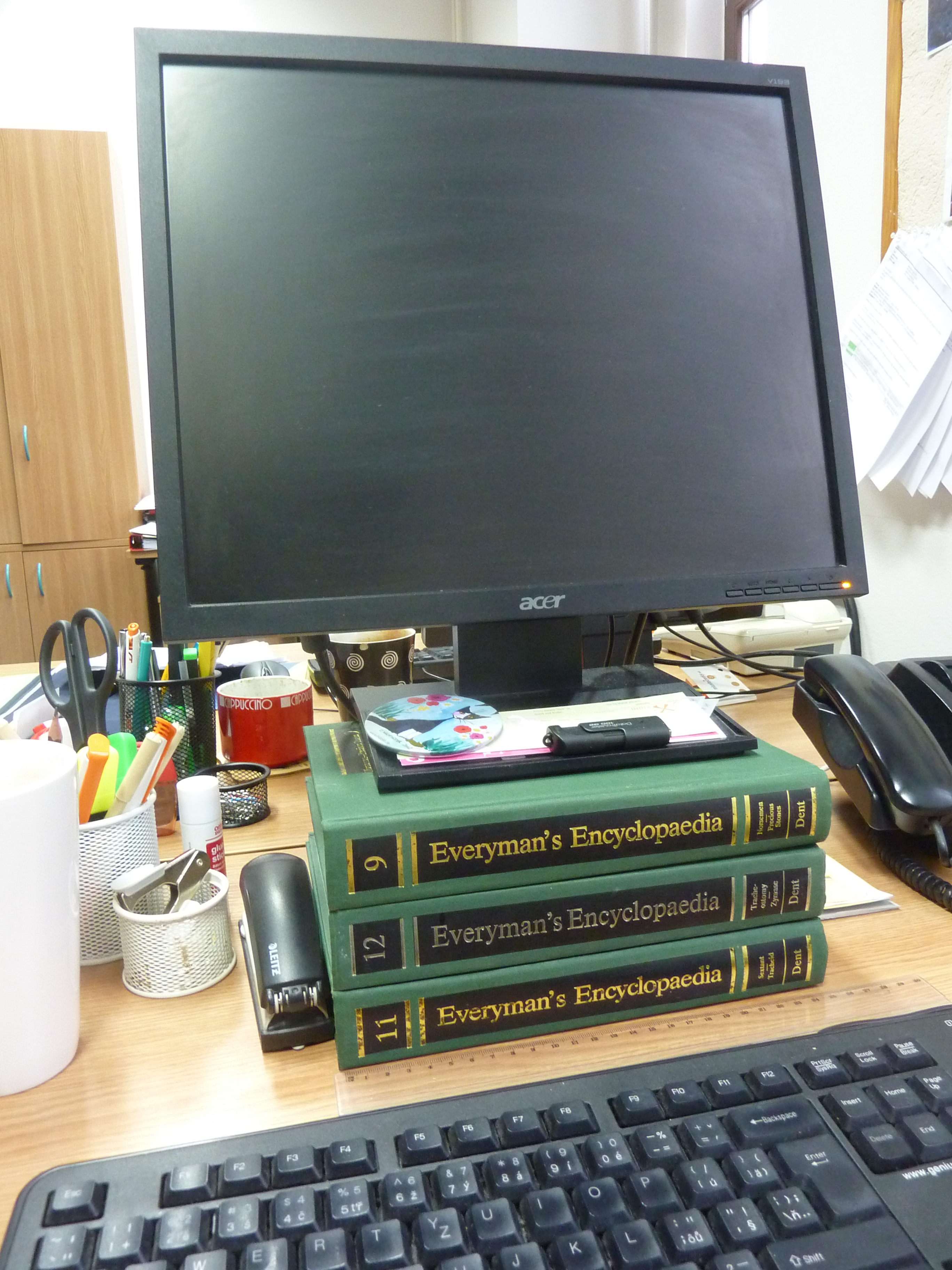 2015 use of a paper encyclopedia to support a computer screen (Masaryk University Language Centre, Brno, Czech Republic)